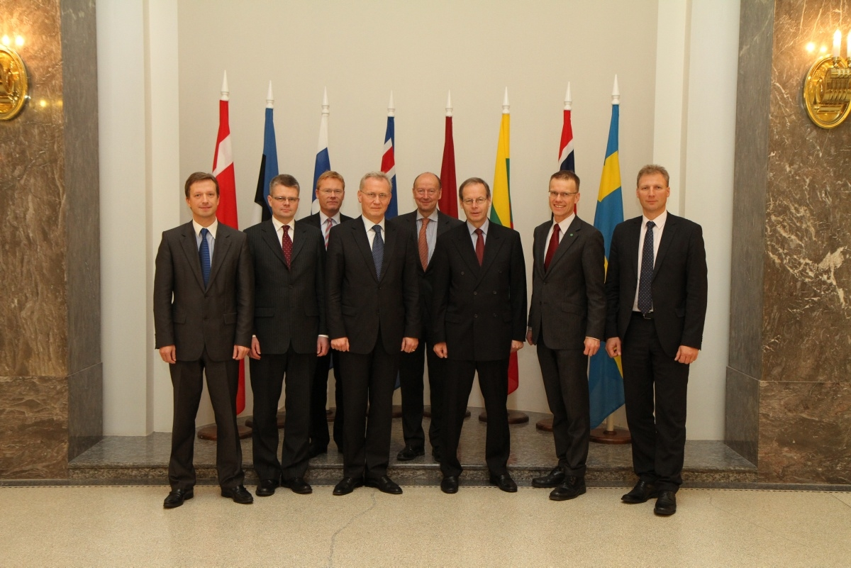 Meeting of the foreign ministry secretaries general of the Nordic and Baltic nations (NB8) in Riga, 12 November 2010